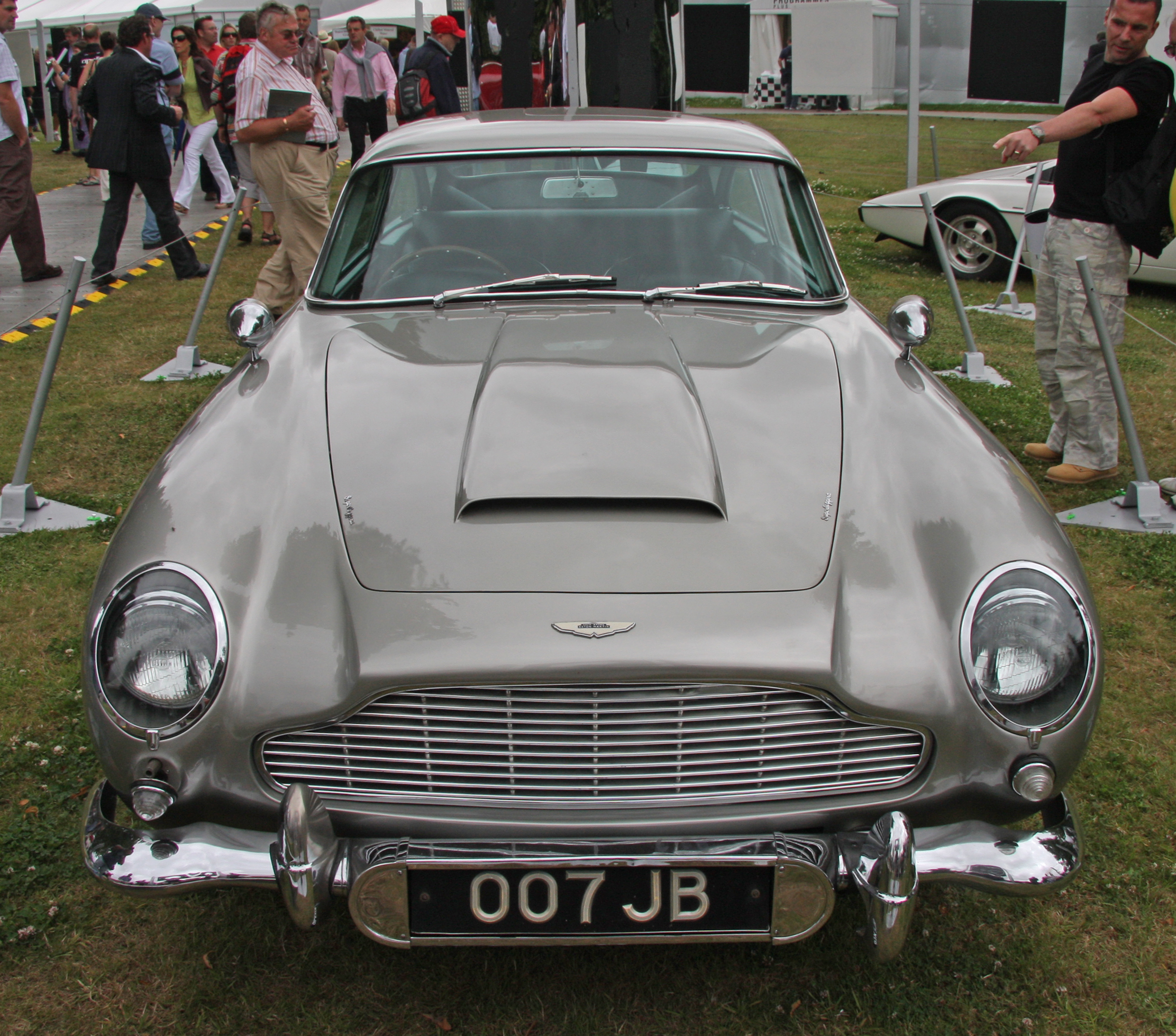 1965 Aston Martin DB5 (James Bond car)